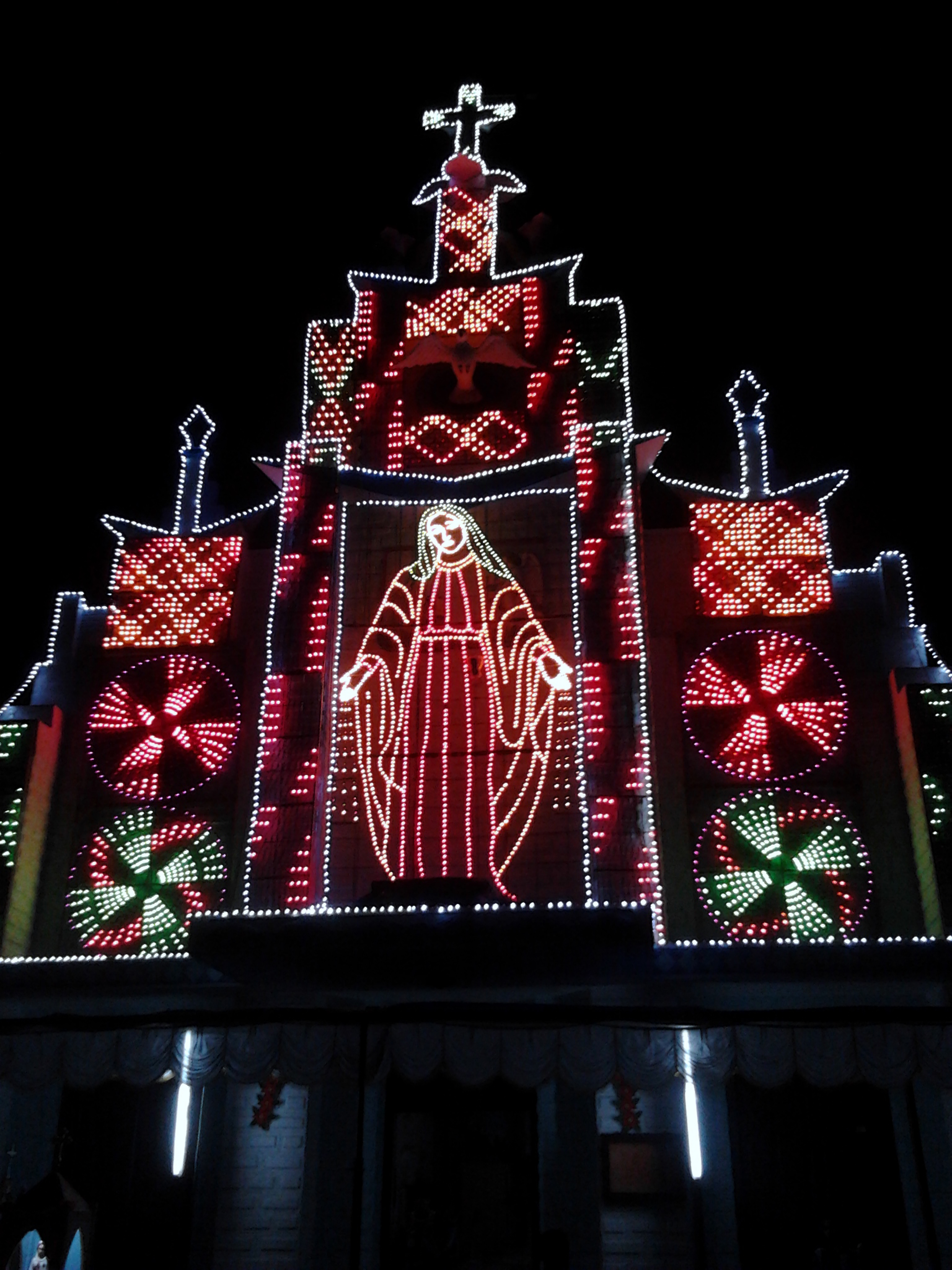 Cheenikuzhy Church, Idukki District, Kerala